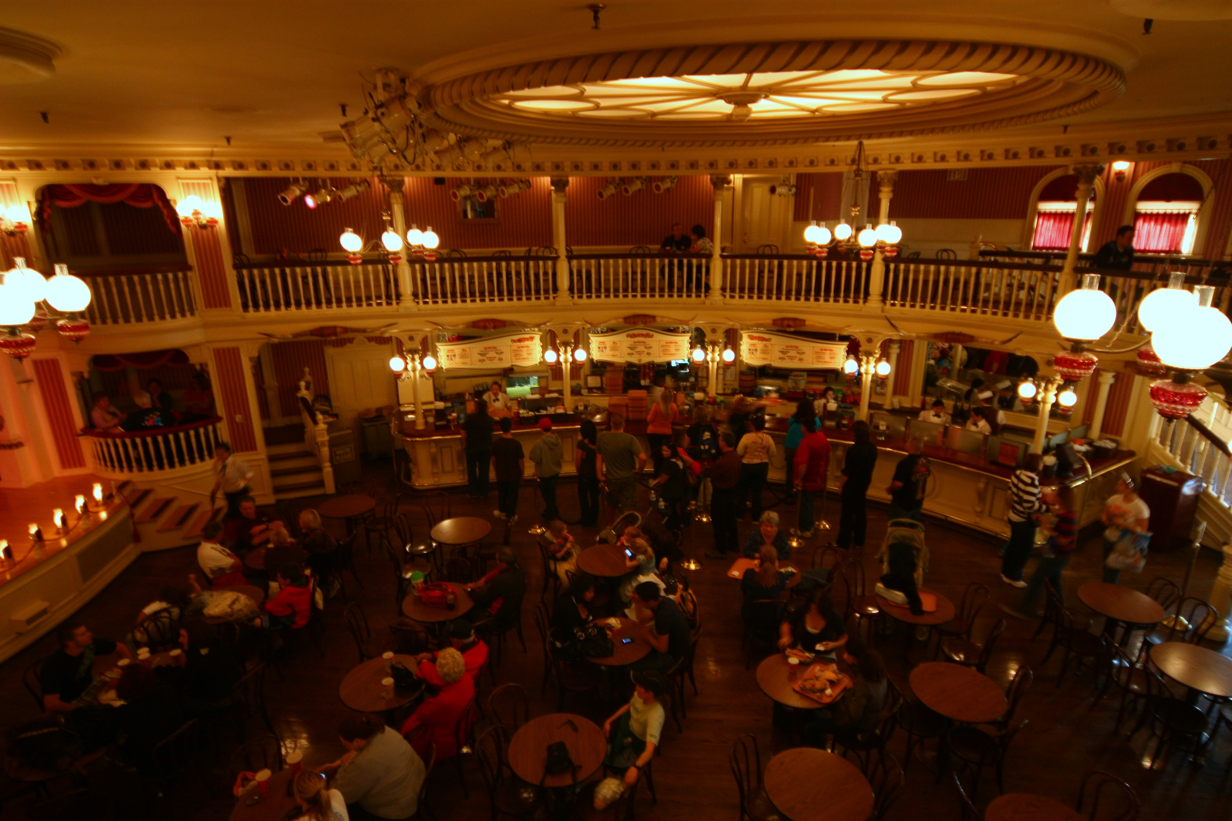 The interior of the Golden Horseshoe Saloon at Disneyland Park.